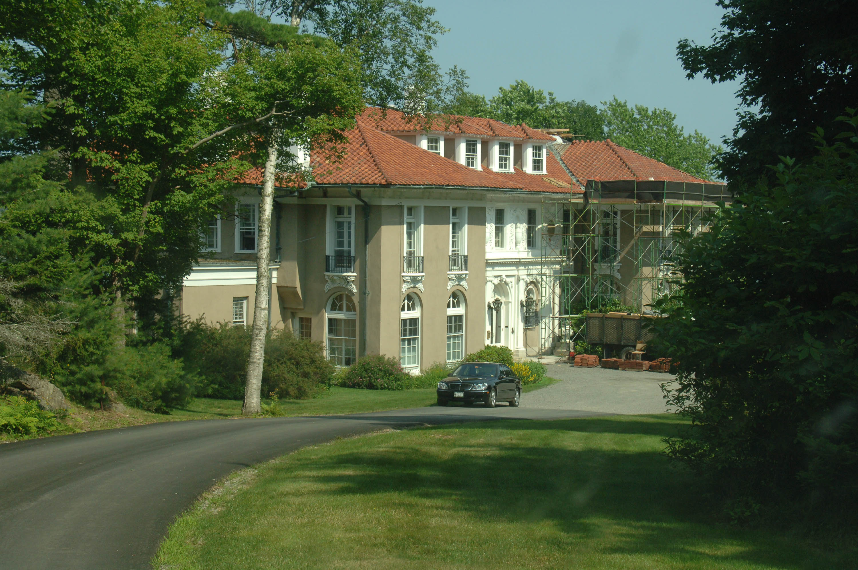 1910, MEDITERRANEAN & 2ND RENAISSANCE REVIVAL MANSION WITH BEAUX ARTS OVERTONES BUILT FOR WALTER LADD OF NEW YORK; LATER BECAME A FRENCH LANGUAGE SCHOOL